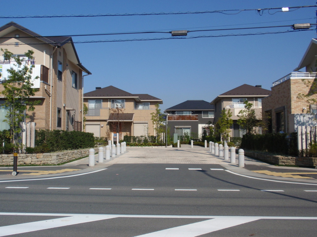 Leafage-Takasaka housing estate in Higashimatsuyama, Saitama, Japan